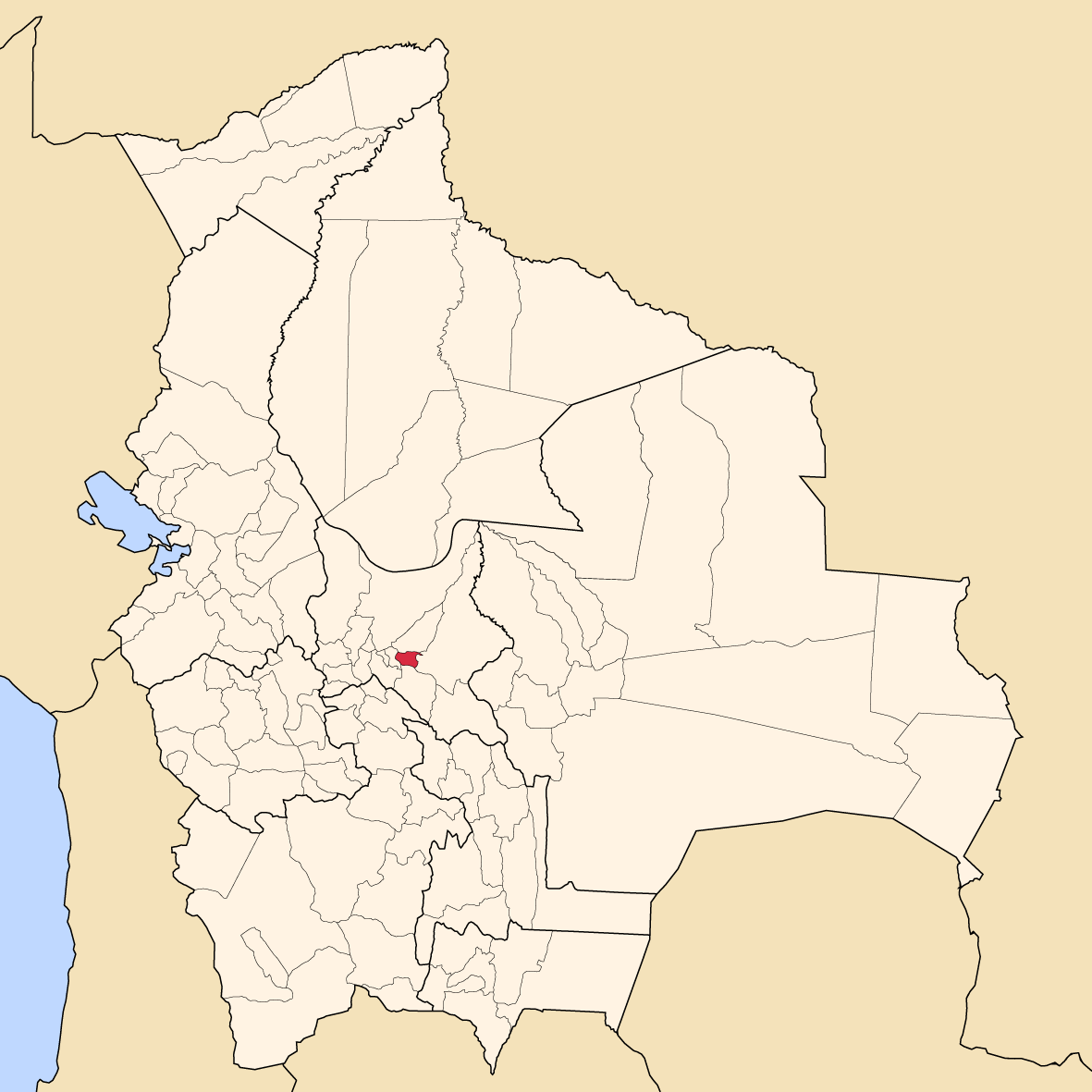 Map of Bolivia showing Arani province